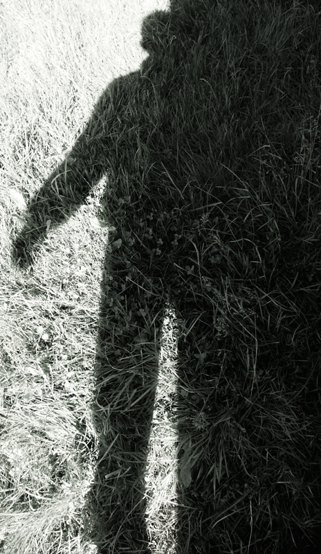 Shadow